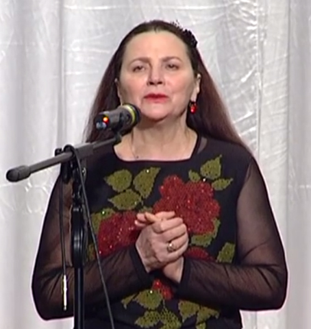 Nina Matviyenko, Ukrainian vocalist, Hero of Ukraine